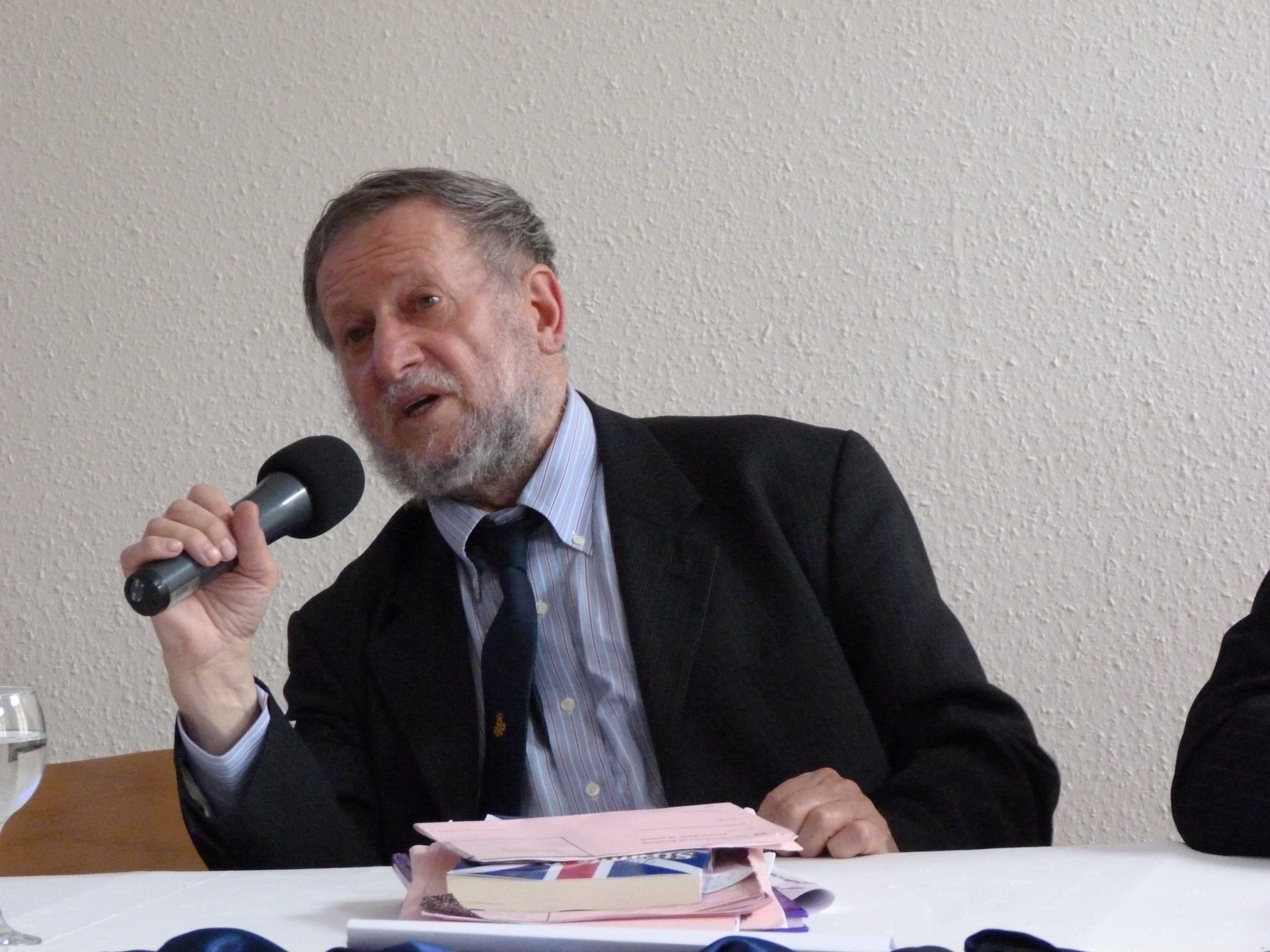 Live on Friday, the 30th of May, 2014. Danube Institute, Terézváros, Budapest. After the European Elections: Europe’s Moral Landscape. Keynote speech: Christie Davies The Enemies of Public Morality (1). Nagy Dániel (4, Nézőpont Institute), Balázs Zoltán (6, Corvinus University), Mándi Tibor (5, moderator). Gabriele Kuby (7), Betlen János (8), Schöpflin György, John O’Sullivan (3, 2). ©© Derzsi Elekes Andor, Budapest, 2014, You are authorised to use these photos and vids under Creative Commons – even for commercial, for profit purposes. Photos must be attributed to Derzsi Elekes Andor. All of the photos and vids in the Metapolisz DVD line are under Creative Commons and can be used even for commercial – for profit – purposes. Recommended Citation Derzsi Elekes Andor: Metapolisz DVD line